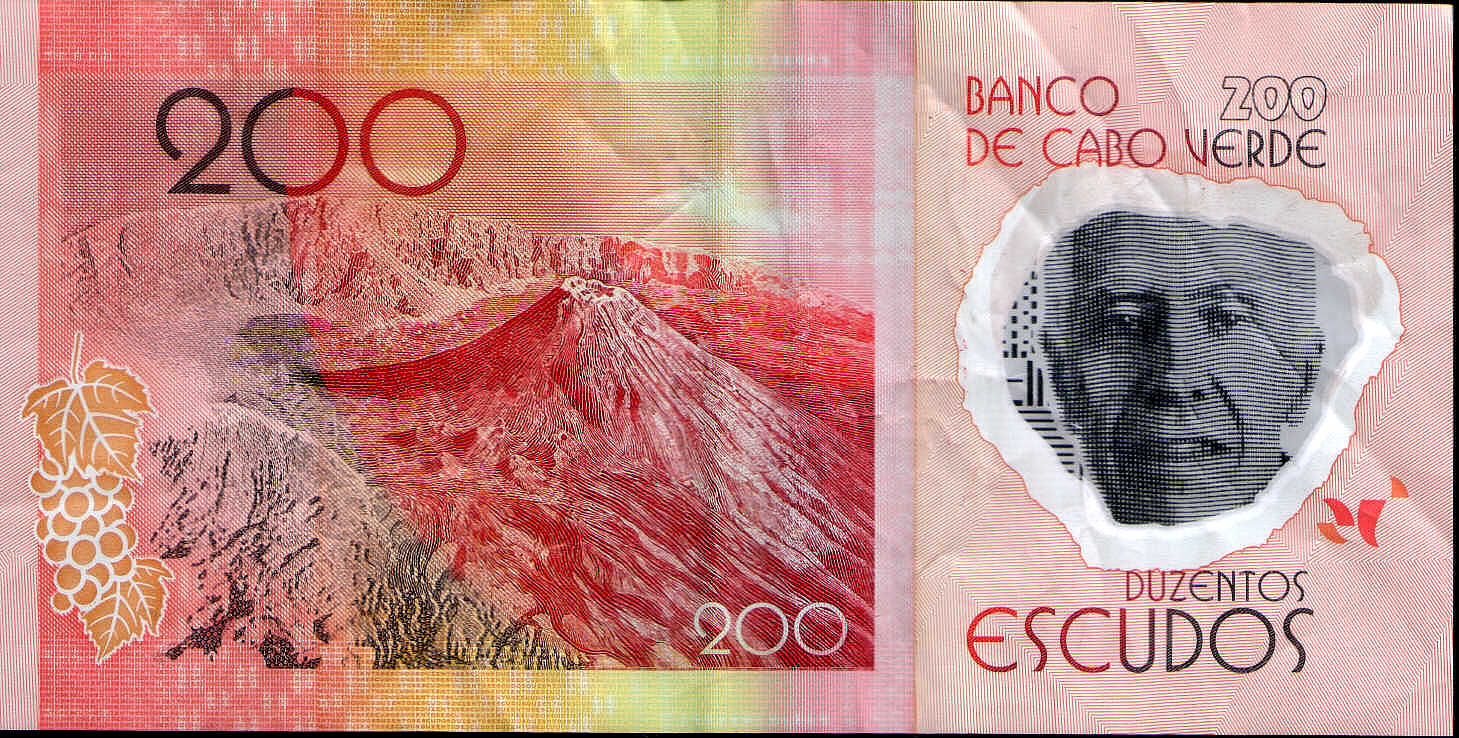 200 Escudos from Cape Verde, Decembre 2014, back, "plastic", Henrique Teixeira de Sousa